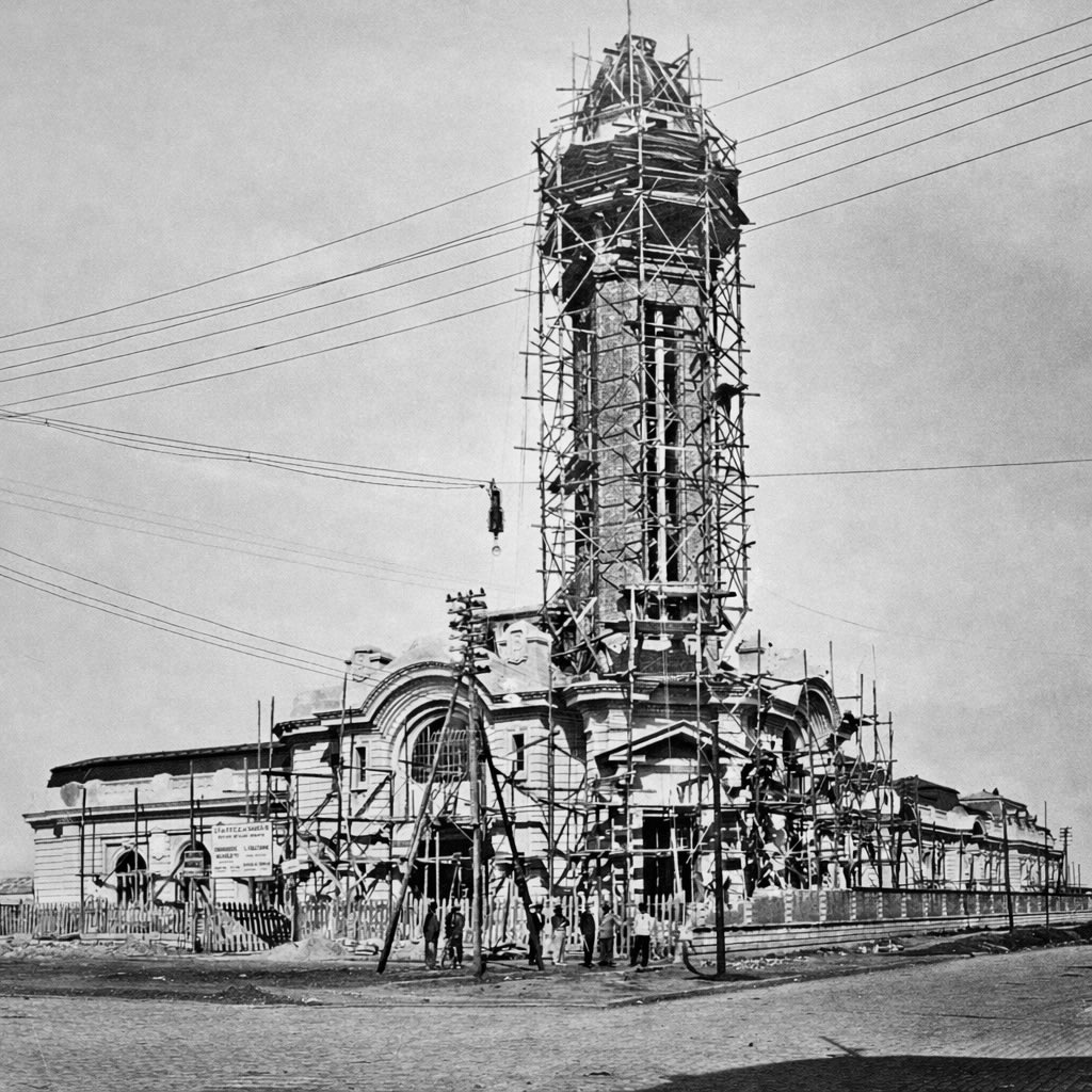 The Rosario bus station while being built, originally to be a railway terminal.